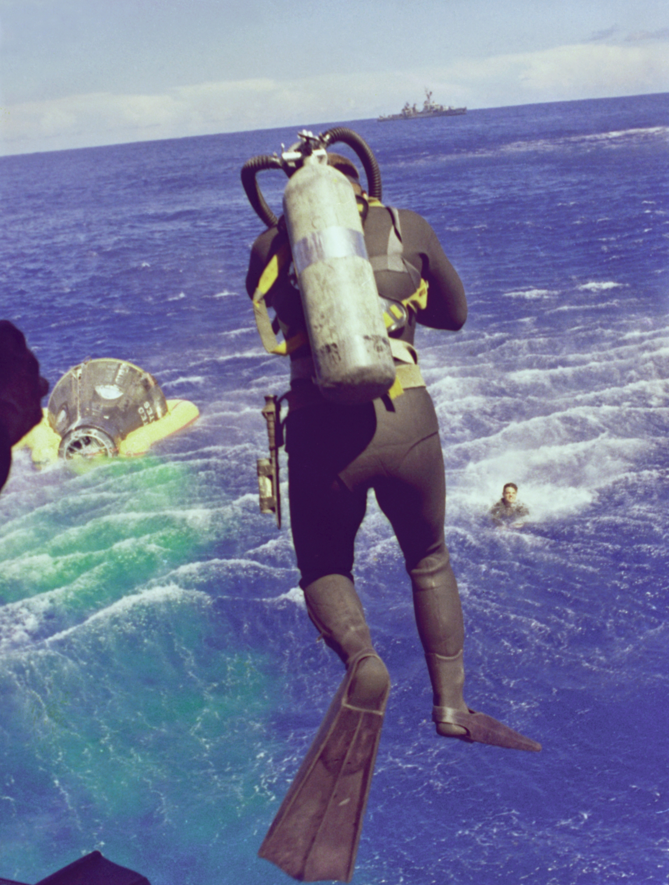 Navy divers exit their helicopter to recover the Gemini 5 spacecraft and astronauts shortly after splashdown.